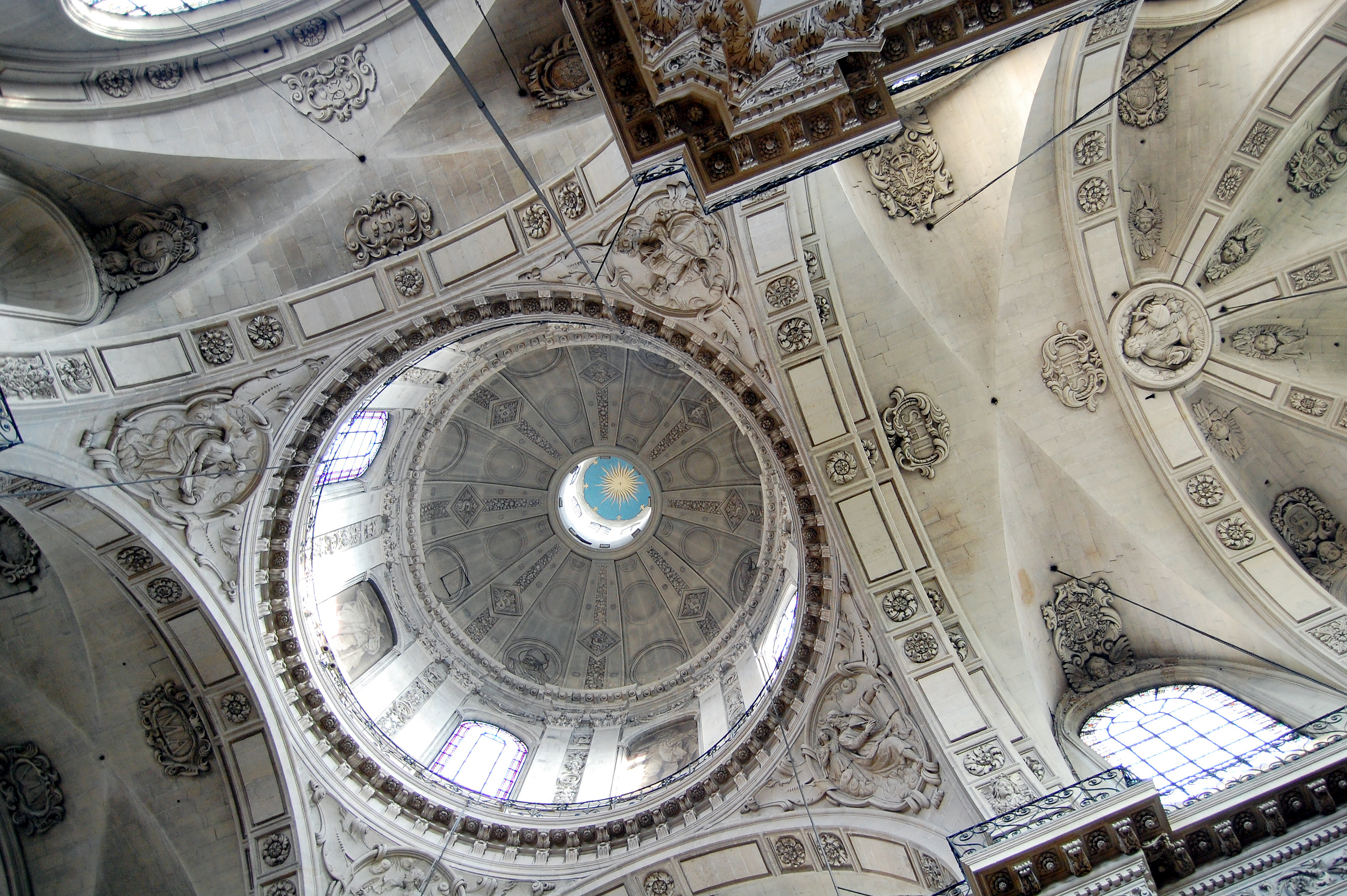 Church Saint-Paul-Saint-Louis, Marais district, Paris, France